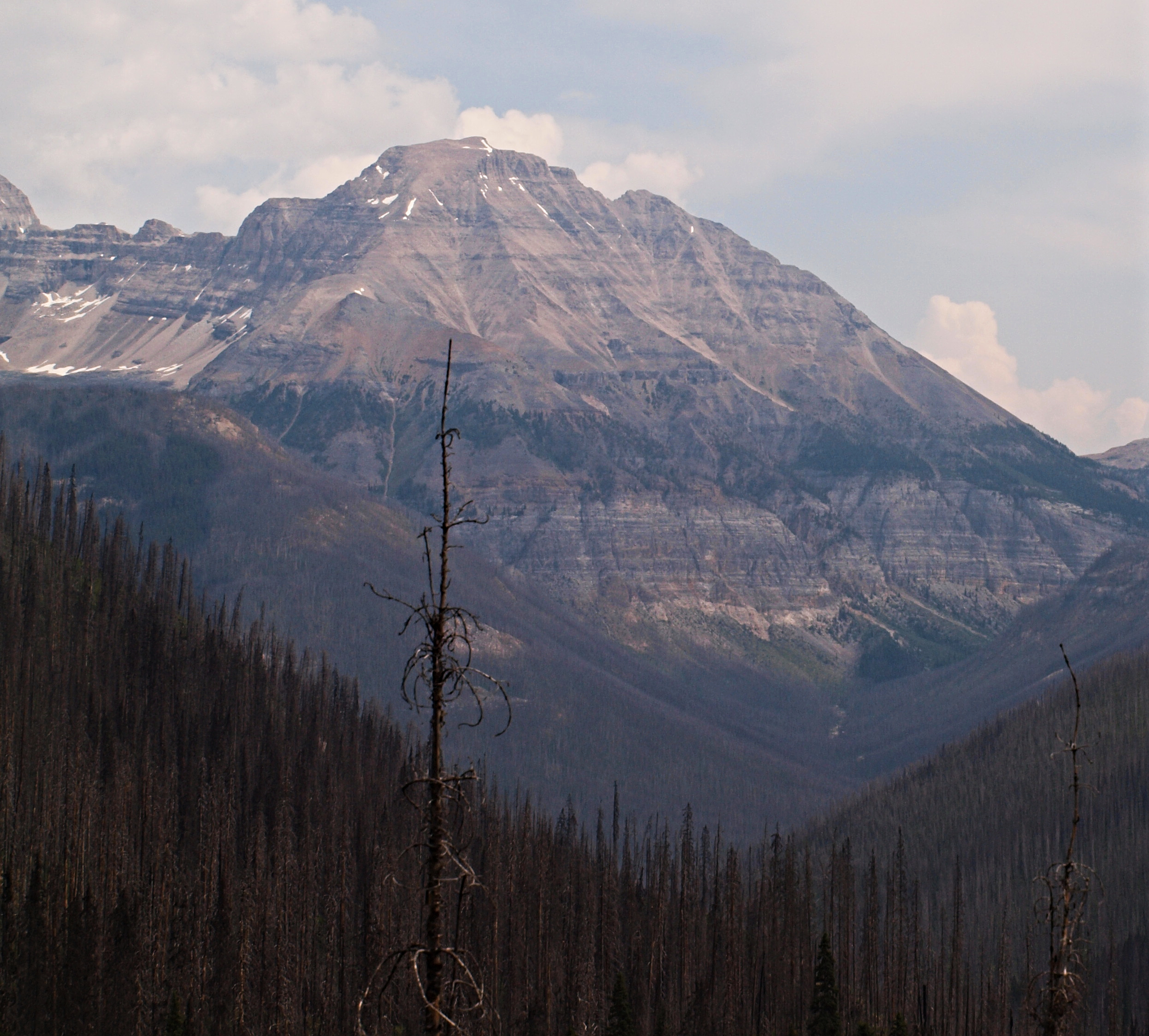 Isabelle Peak in Kootenay National Park, Canada seen from southwest from Floe Lake Trail